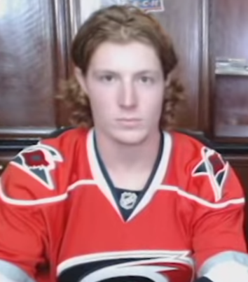 Brock McGinn